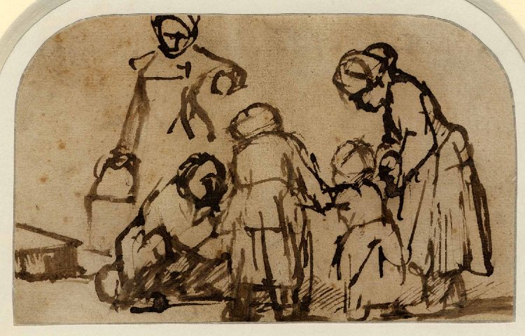 A Child Being Taught to Walk